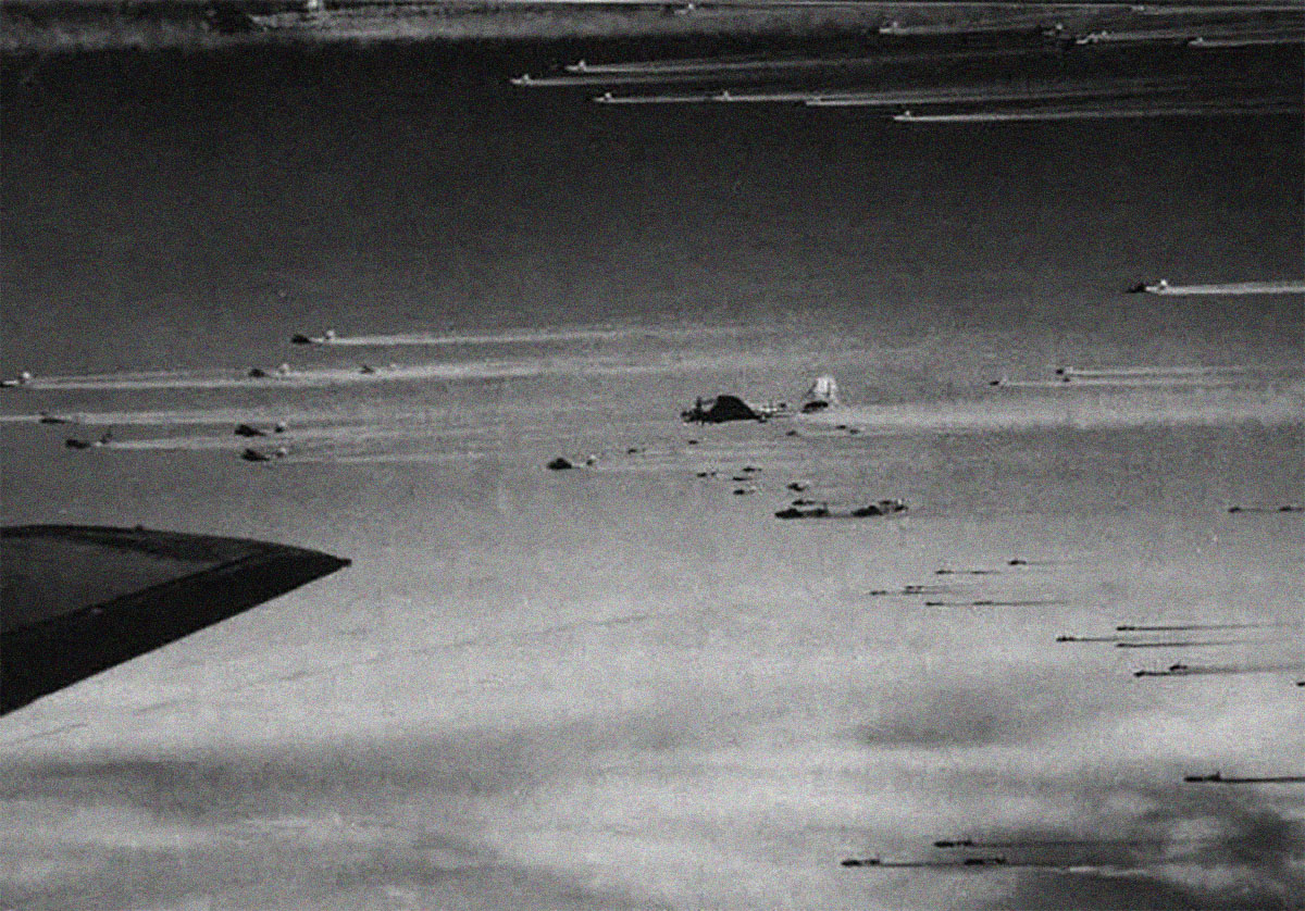 Part of a 1,000-ship B-17 Flying Fortress bomber stream during World War II.